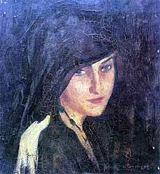 Portrait of his wife, Mediha Hanım, the daughter of Mullah Shafiq Bey